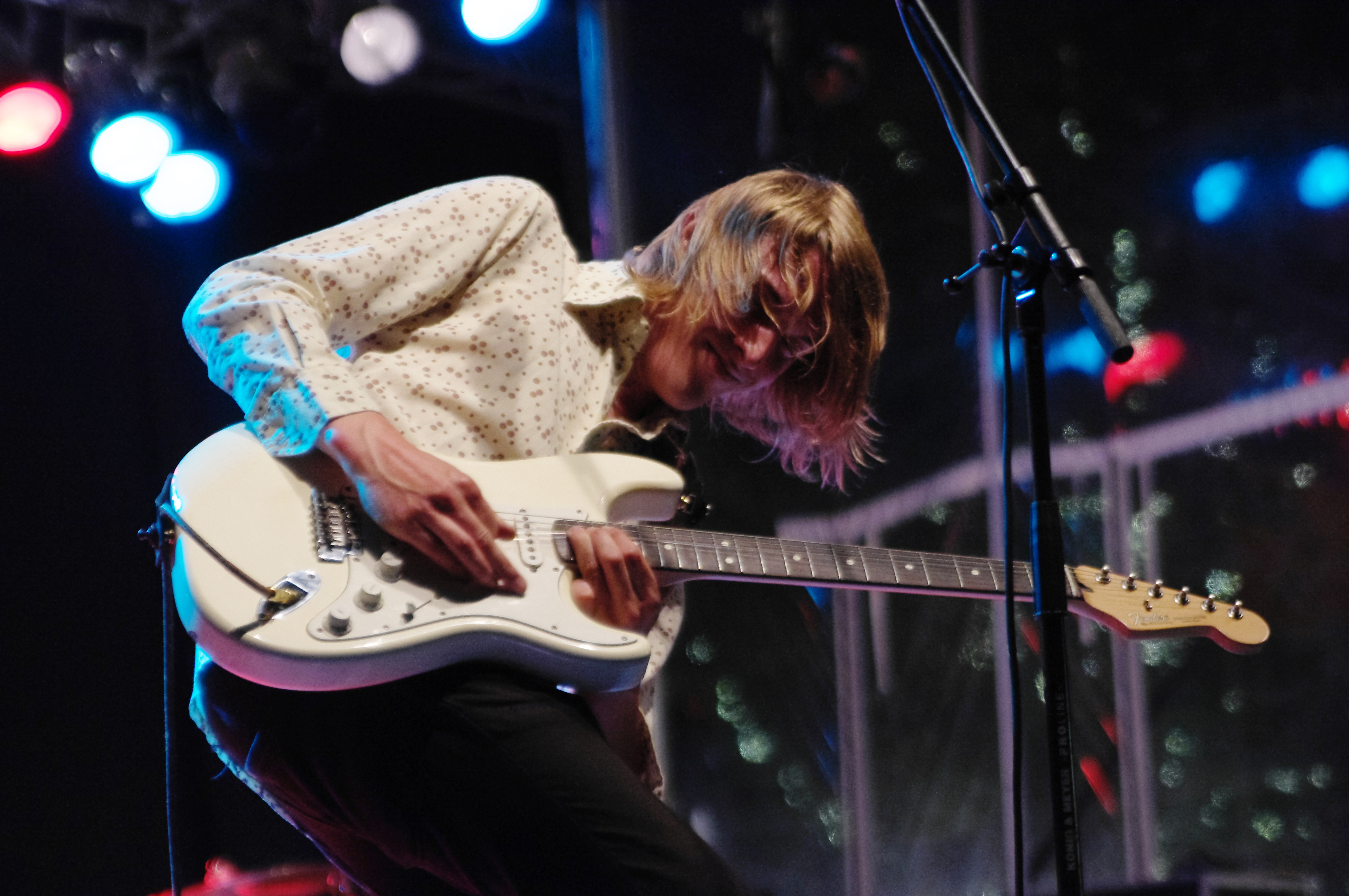 Kevin Stunnenberg of Birth Of Joy playing open air in Enschede, NL